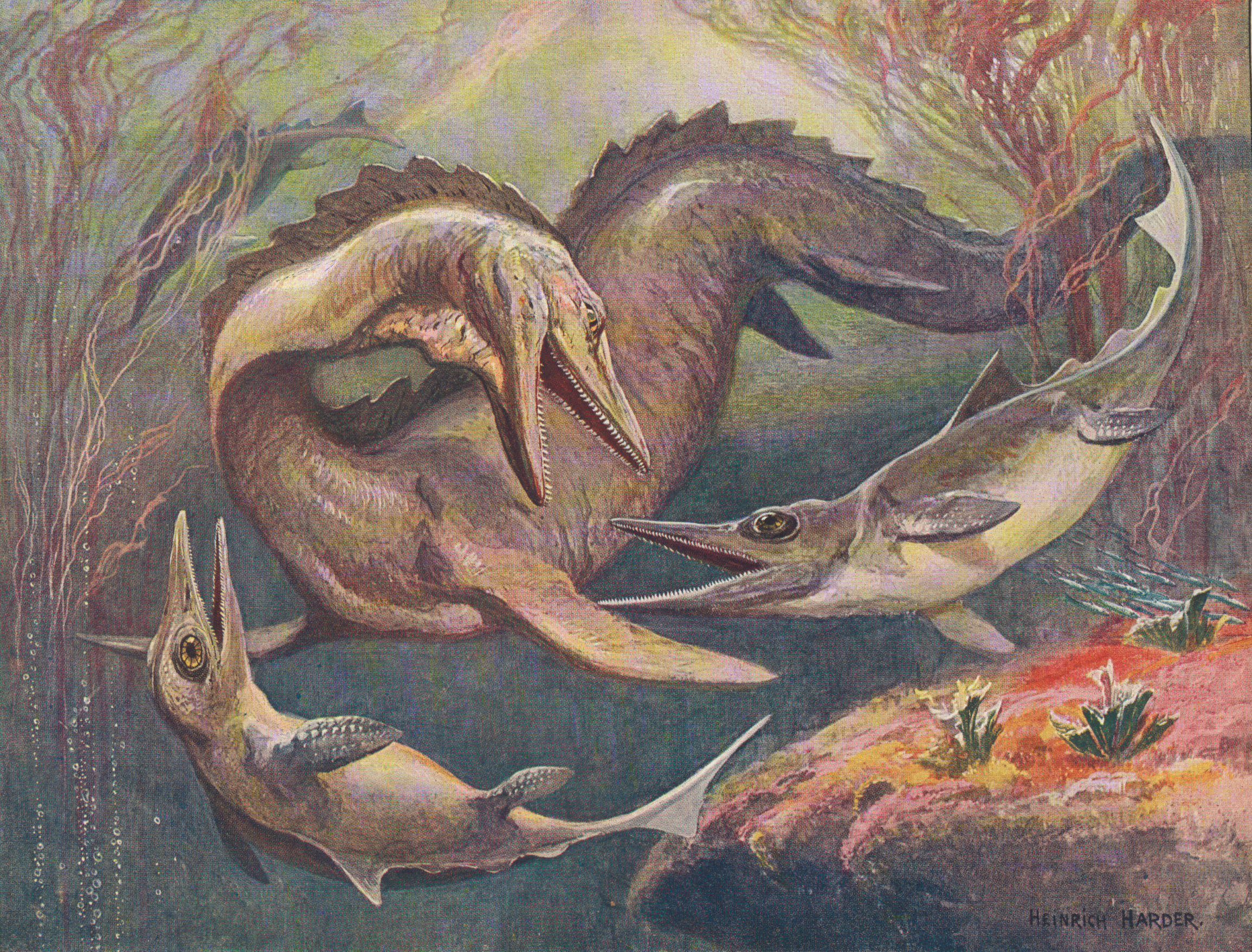 Mosasaurus and Ichthyosaurs. Illustration for Die Wunder der Urwelt (1912) LARGE VERSION